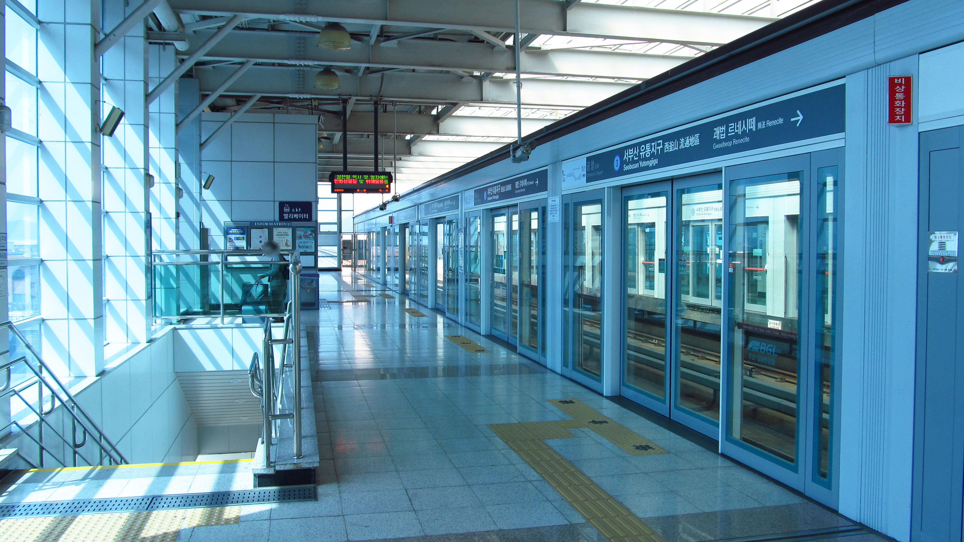 The platform at Seobusan Yutongjigu Station on the Busan–Gimhae Light Rail Transit in Gangseo-gu, Busan, Republic of Korea(South Korea)